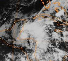 This image shows Tropical Storm Kyle in the western cCribbean sea in 1996.